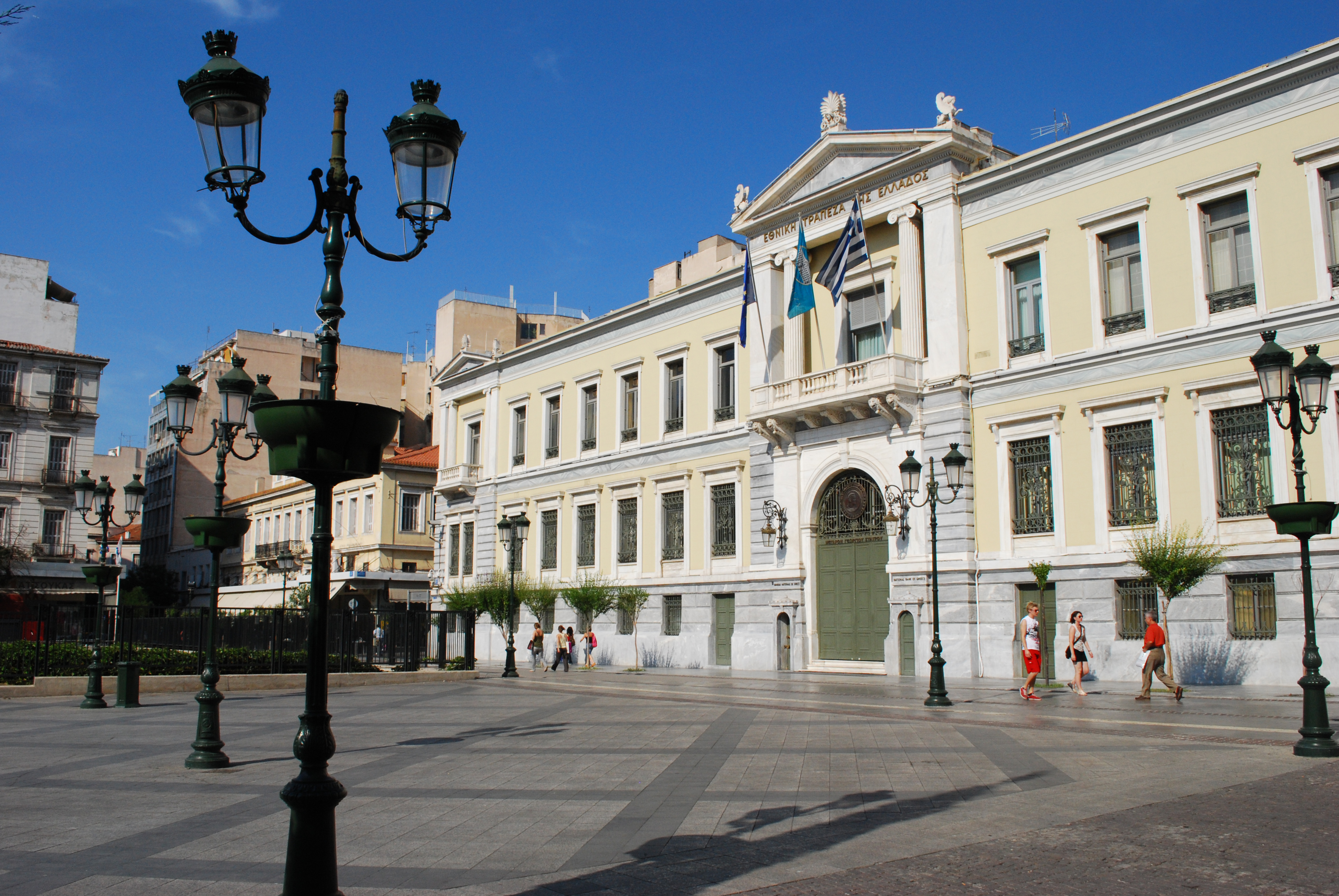 Odos Aioulou, National Bank of Greece / Ethniki Trapeza tis Ellados.